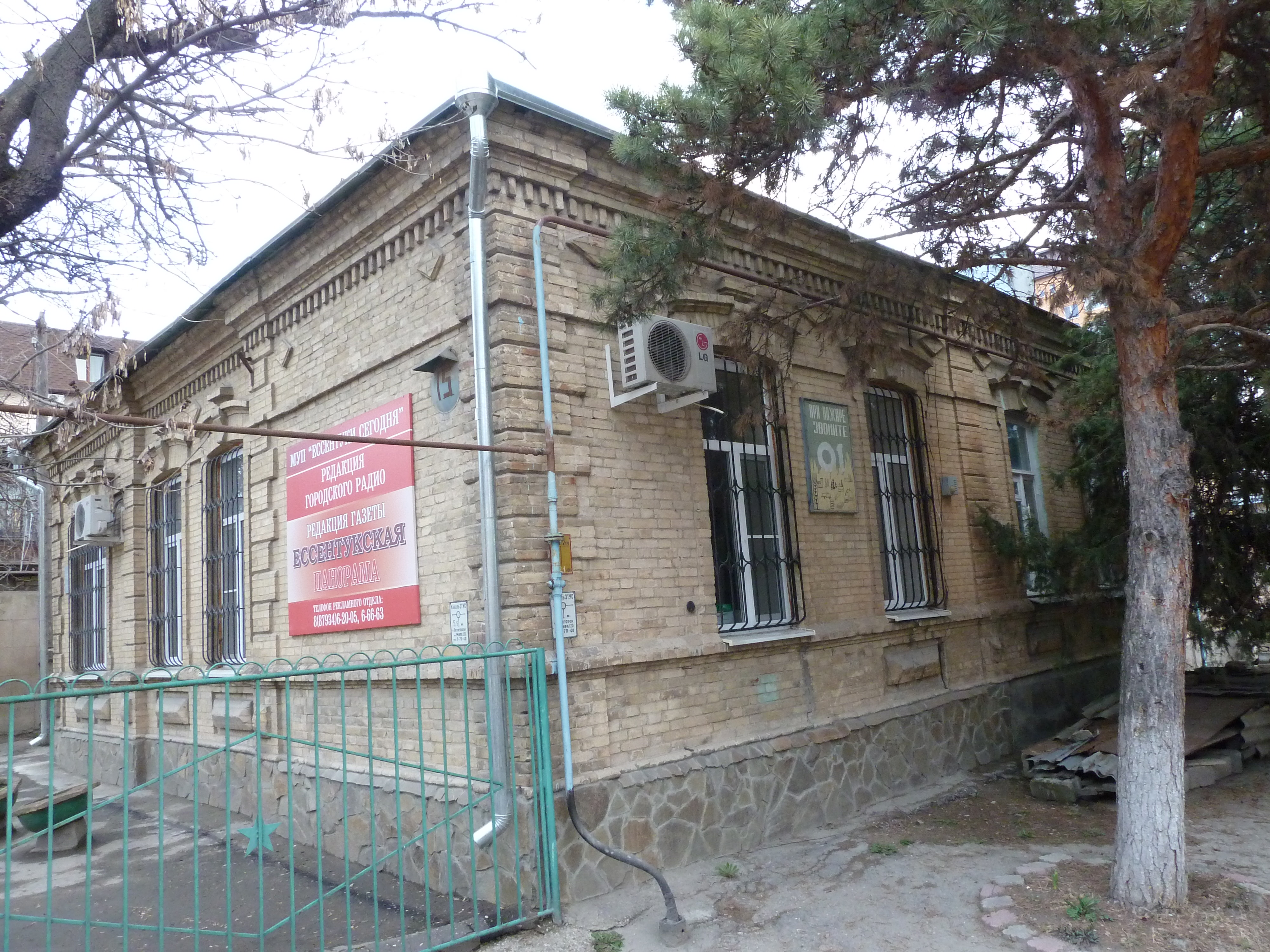 Volodarskogo Street in Yessentuki. The building of City Radio and "Yessentukskaya Panorama" newspaper.